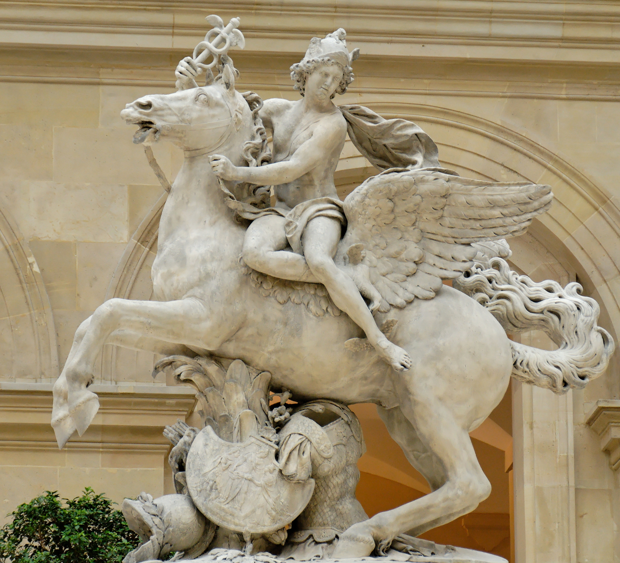 Mercury riding Pegasus. Carrara marble, 1701-1702. Commissioned in 1699 for the decoration of the park of Marly, transfered in 1719 to the entrance to the Tuileries Gardens, replaced in 1986 by copies.